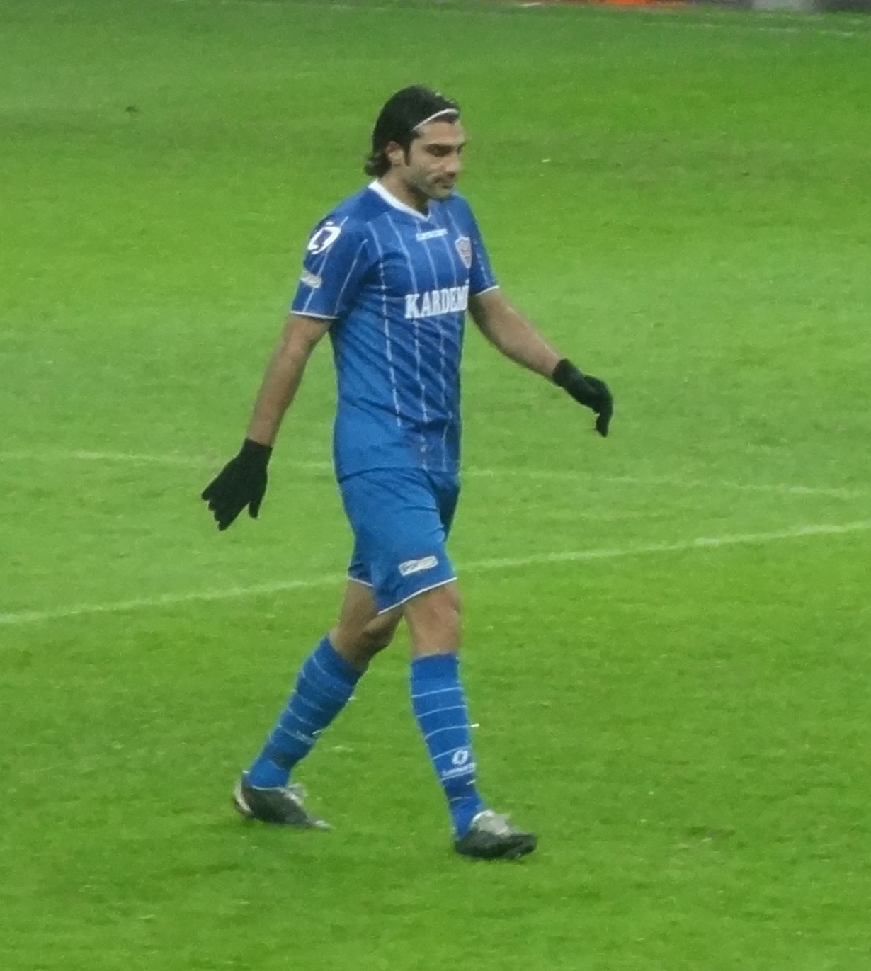 Mustafa sarp playing against GALATASARAY